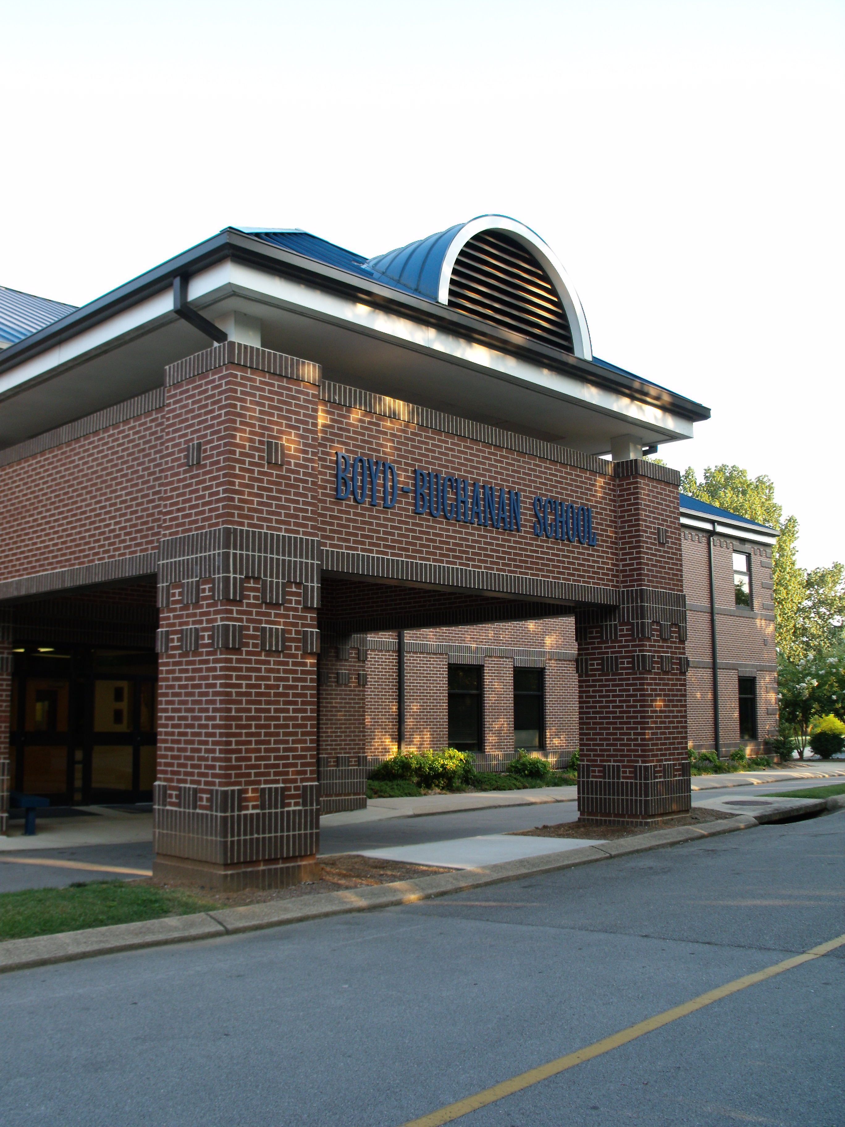 View of the main entrance to Boyd-Buchanan School, Chattanooga, Tennessee.